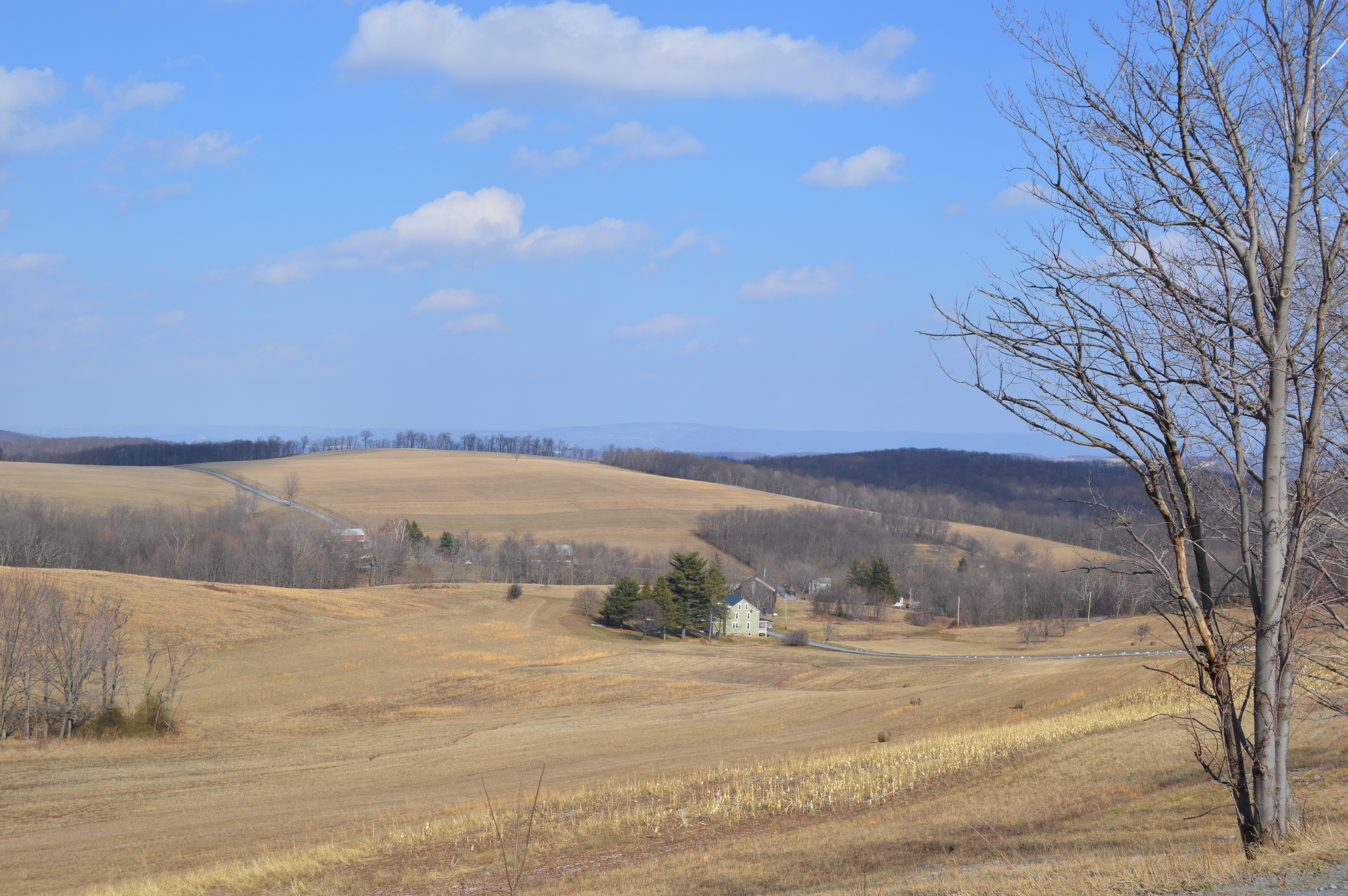 Looking east from Shaffer Mountain Road toward McCreary Road in Napier Township, Bedford County, Pennsylvania, United States. In the distance, Chestnut Ridge can be seen outlined against the sky. The farmstead near the middle of the photograph dates from 1890.